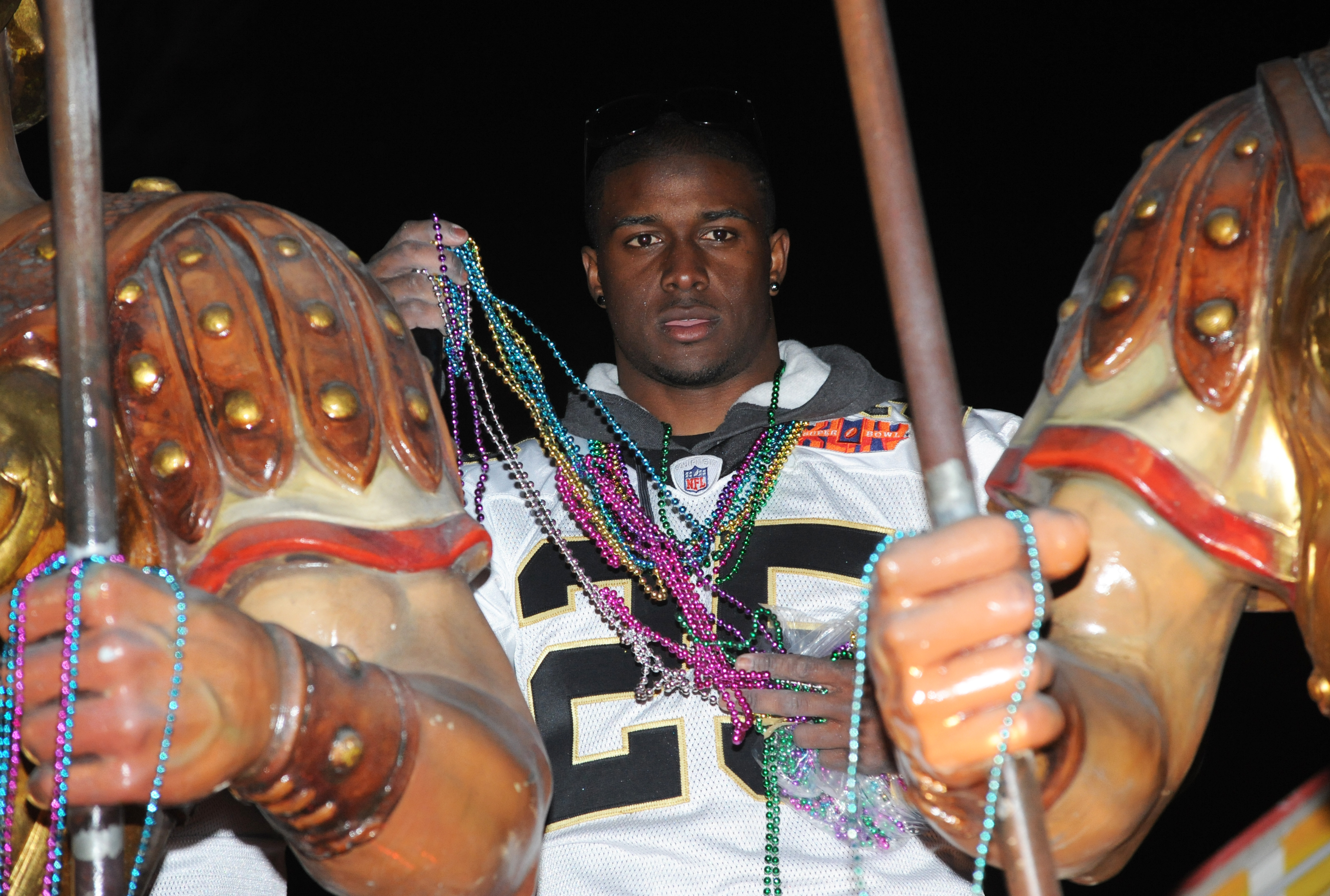 A photo of a man with some Mardi Gras beads. February 9, 2010